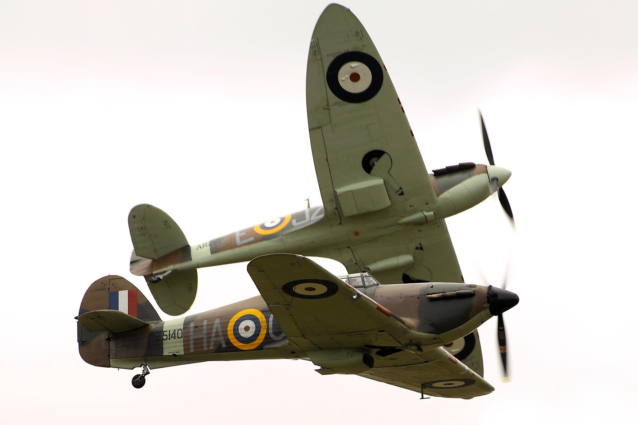 Hurricane & Spitfire - Flying Legends 2011